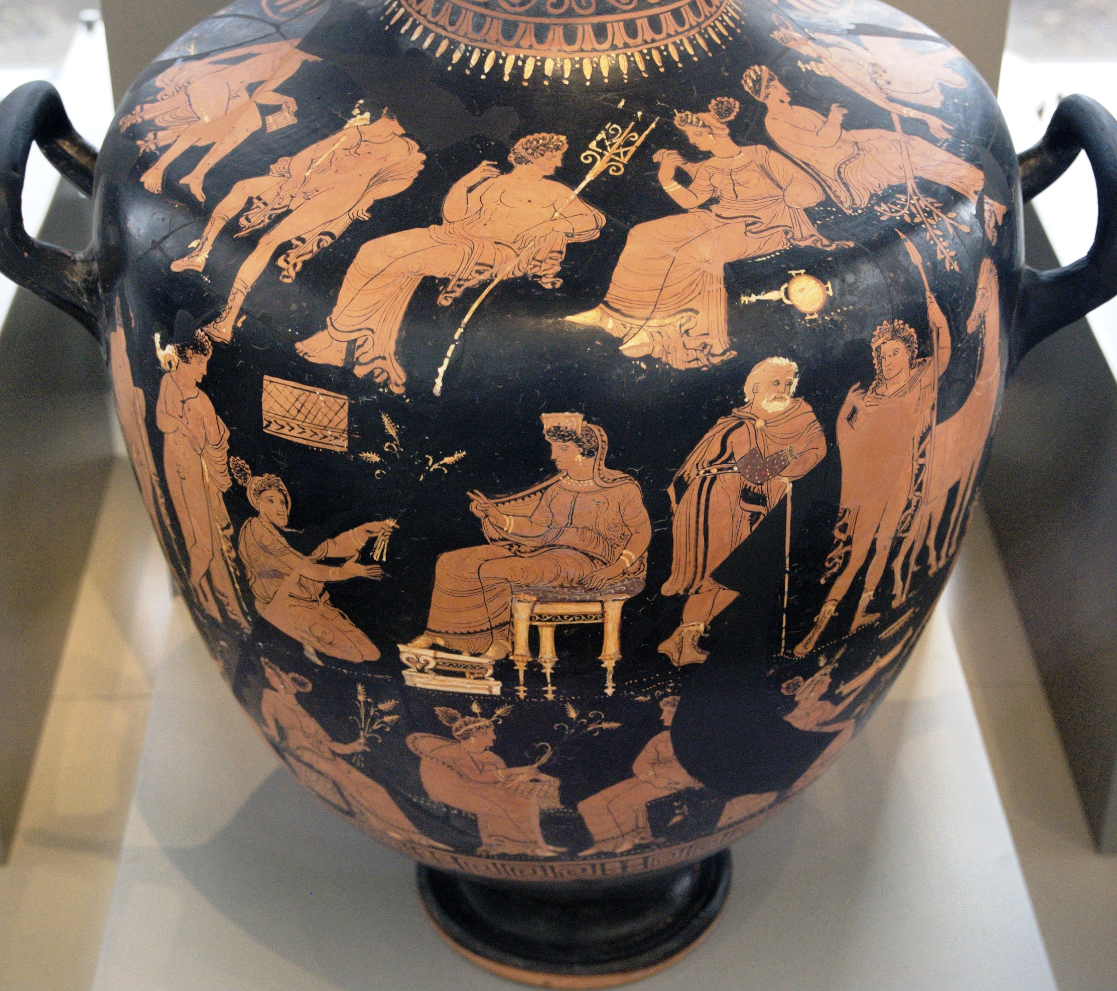 God assembly (shoulder). Eleusinian mysteries, Demeter and Metanira (belly). Apulian red-figure hydria, ca. 340 BC.